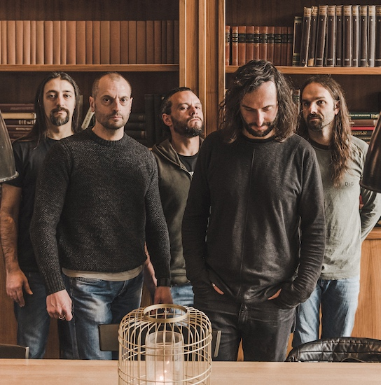 2019 line-up official photo for Nosound band.